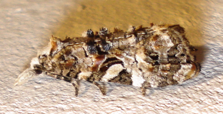 British Moths - Phtheochroa rugosana